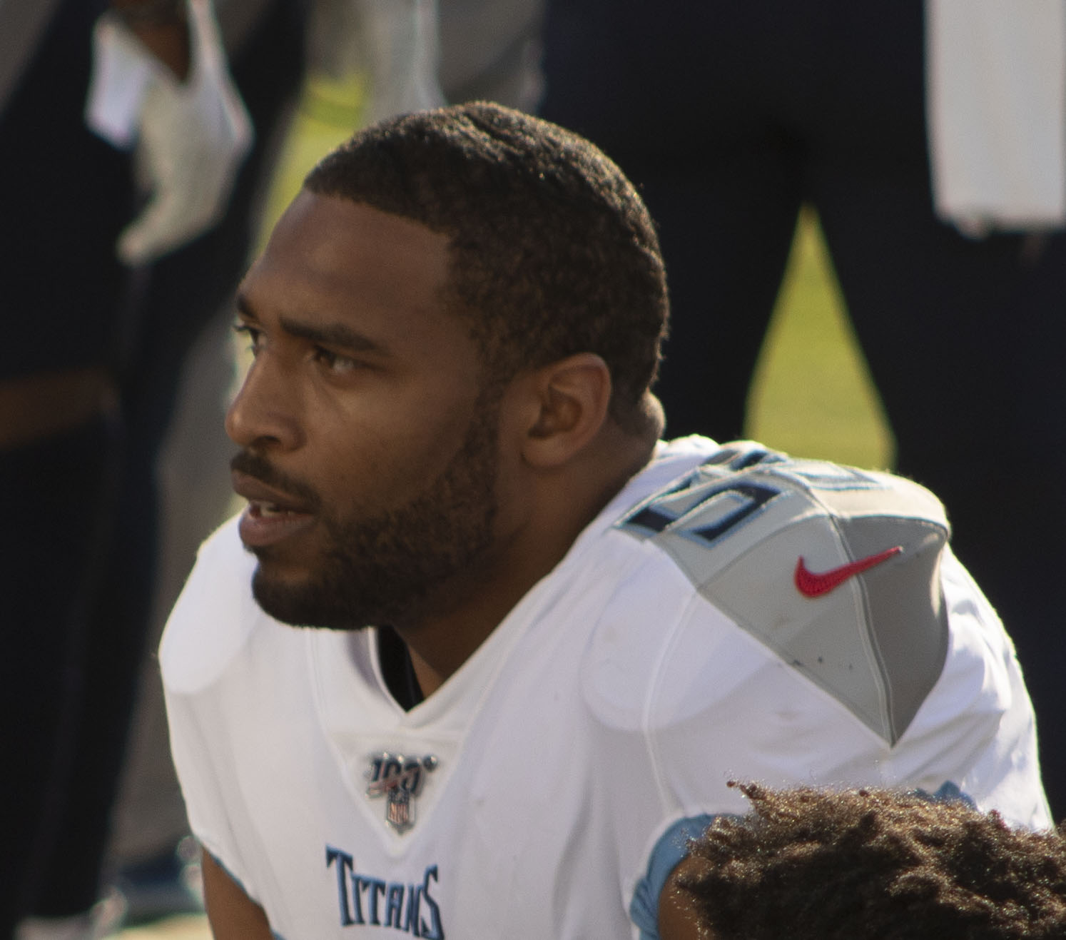 Woodyard with the Titans on December 8, 2019